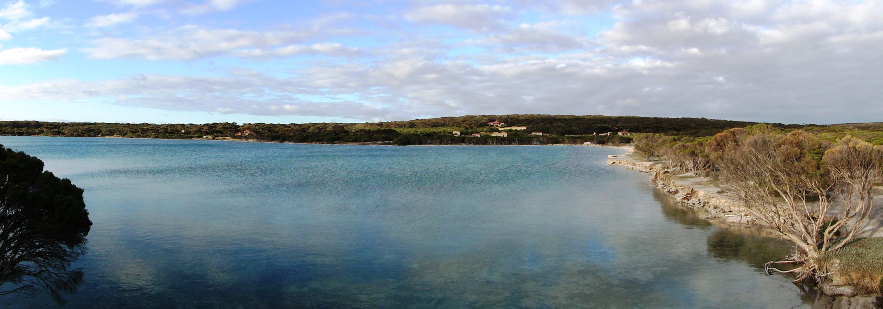 Innes Lake, with the town of Inneston in the distance, Innes National Park, South Australia